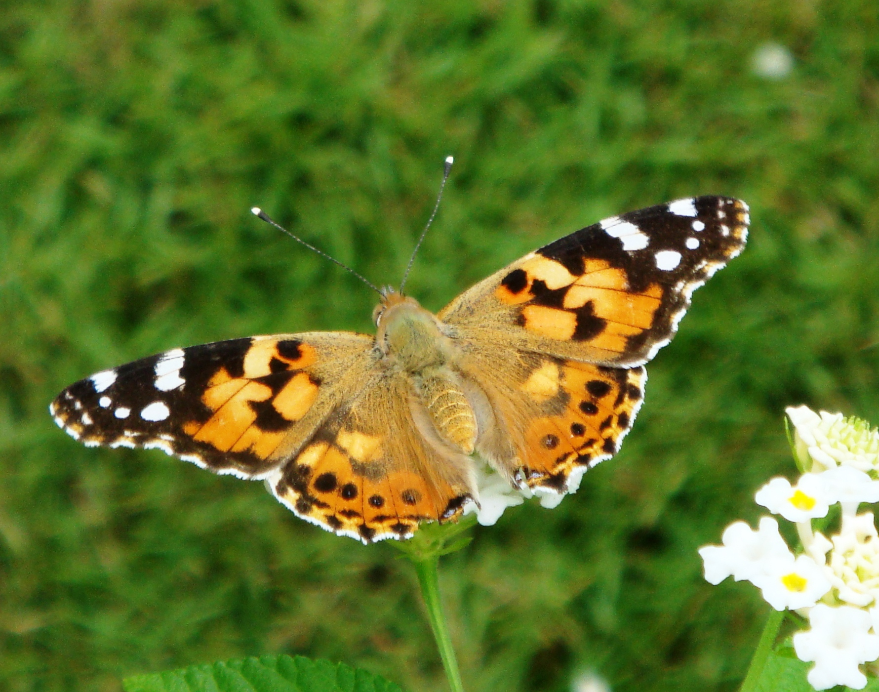 Painted lady (Vanessa cardui). Photo taken at Calicut.